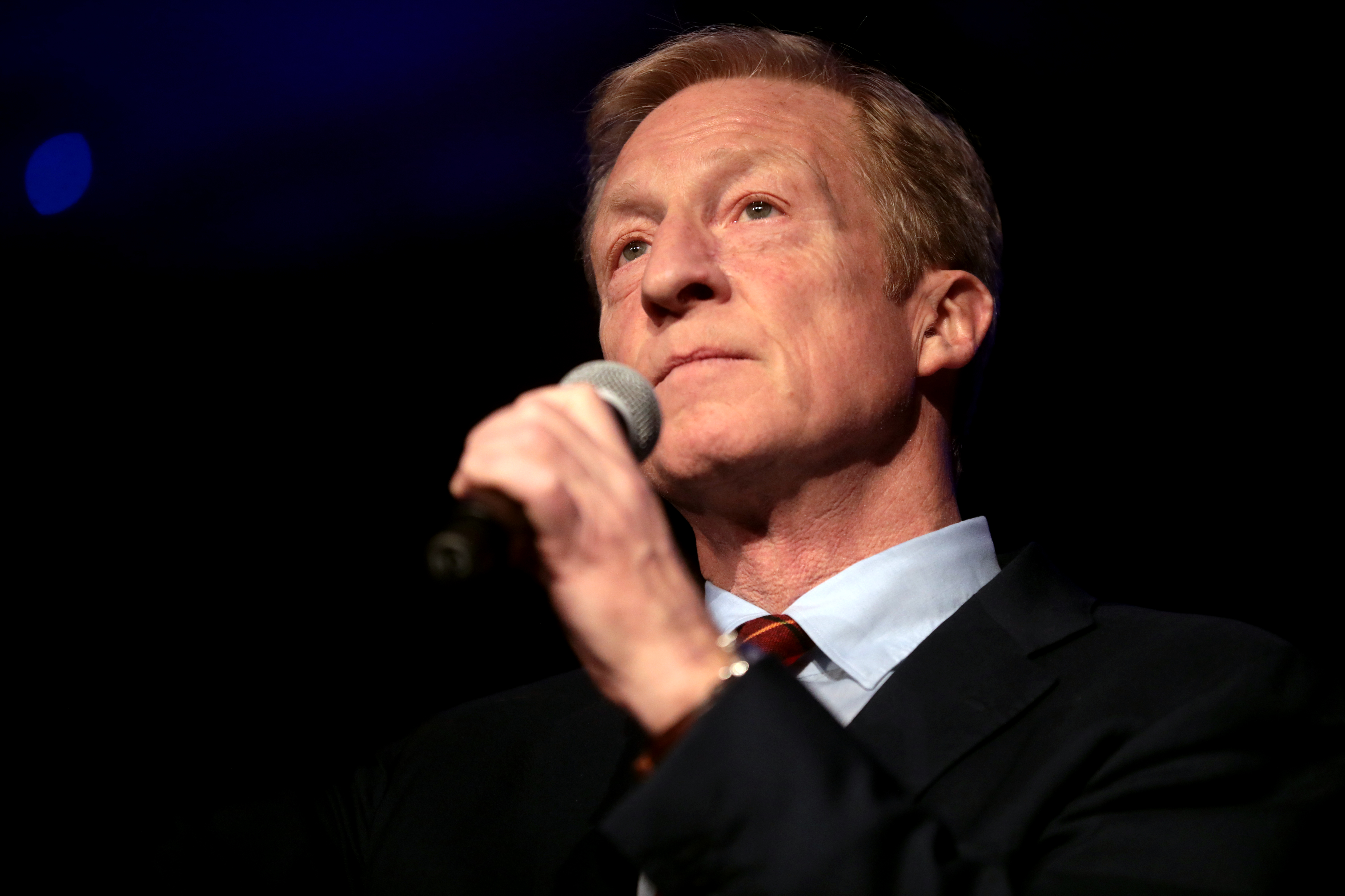 Tom Steyer speaking with attendees at the Clark County Democratic Party's 2020 Kick Off to Caucus Gala at the Tropicana Las Vegas in Las Vegas, Nevada.